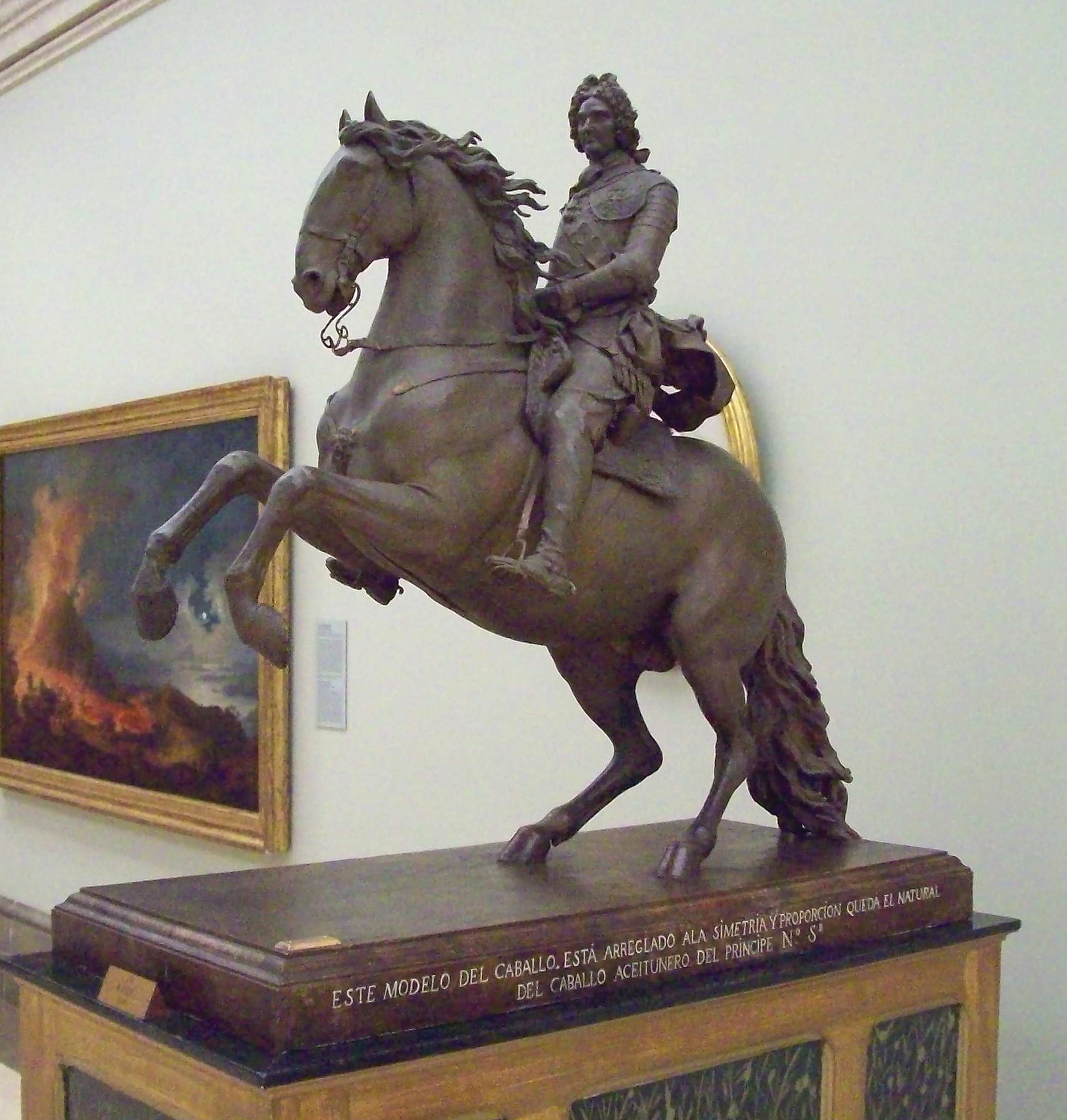 Equestrian statue of king Philip V of Spain (1683–1746).